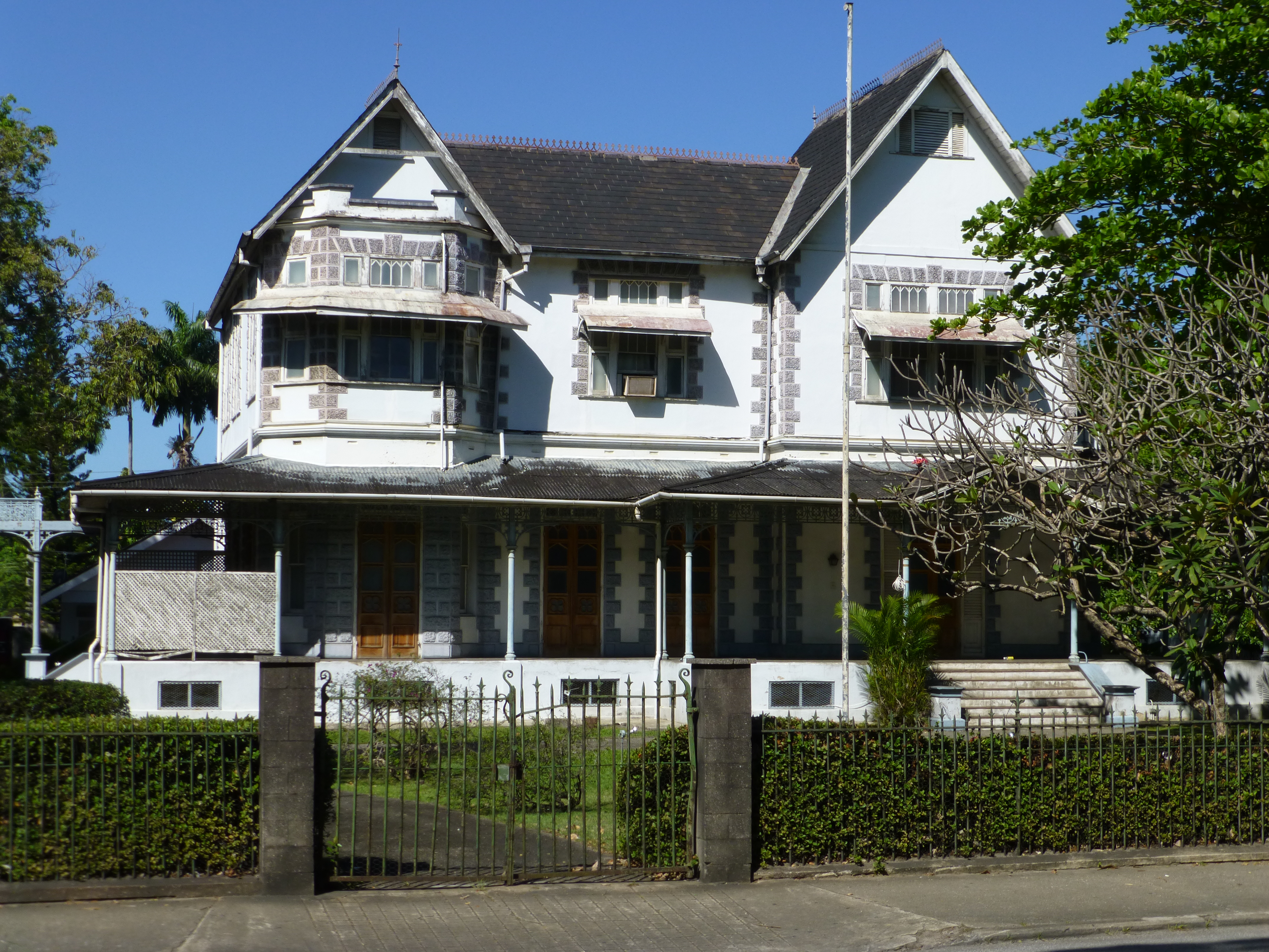 Hayes Court, Magnificent Seven, St. Clair, Port of Spain, Trinidad.